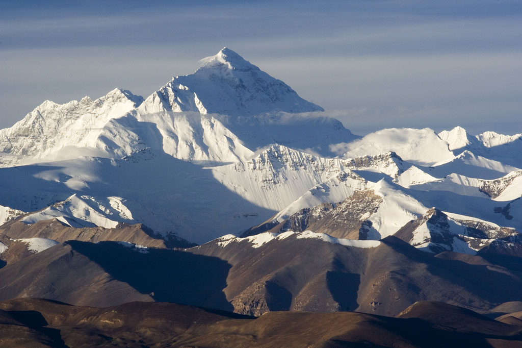 North Face of Mt. Everest